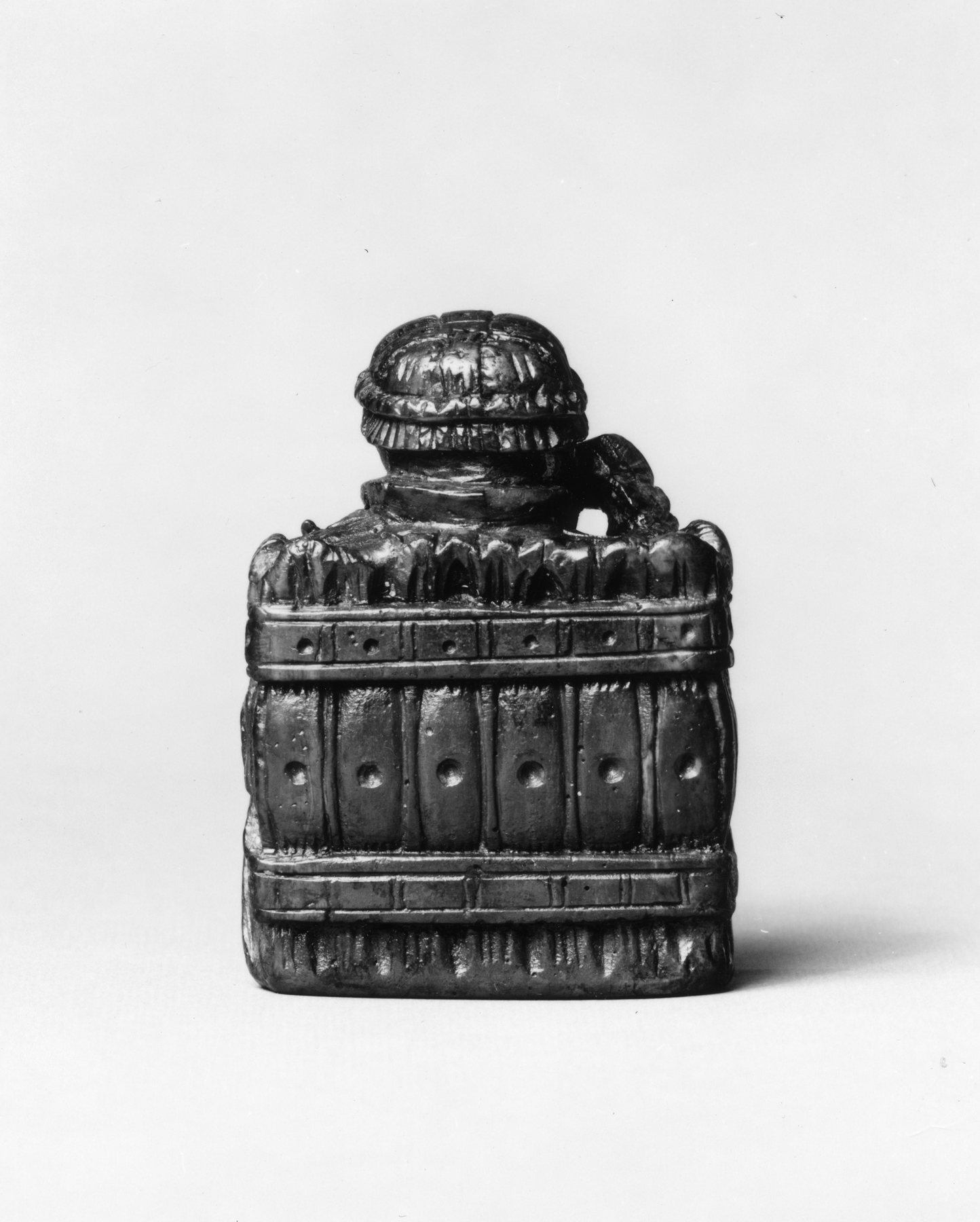 In medieval Scandinavia, the chess rook took the form of a watchman with his back to a fence instead of a medieval castle watchtower. In this example, the watchman blows his horn to signal trouble, holds a sword, and is accompanied at either side by two smaller military figures with shields. It bears the signature "H" on its base. Six other examples from the same workshop have survived, including a king, a queen and three rooks, now in collections in Paris (Musée National du Moyen Age), London (British Museum), and Copenhagen (Royal Collection).